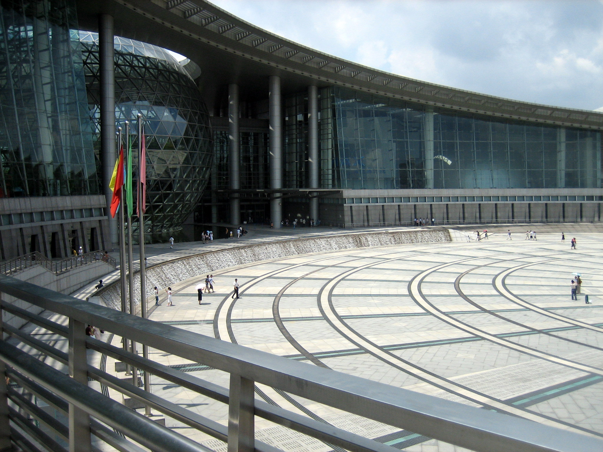 Shanghai Science Technology Museum, by User:Mountain at Shanghai